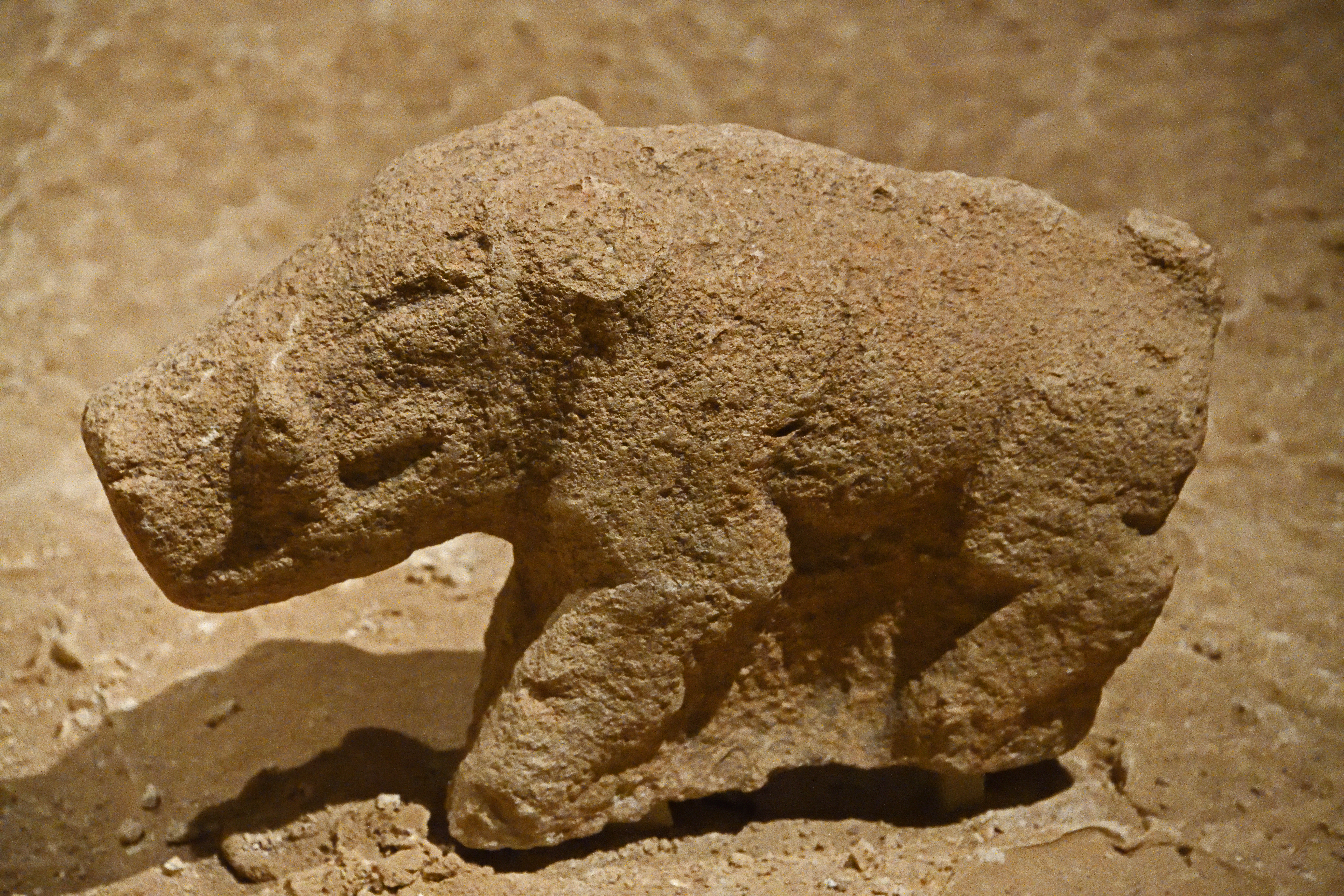 Animal statue, Limestone, Neolithic, Göbekli Tepe. In the hall there is a sand-covered area where several of these medium-sized figured are exposed. It seems very many of them have been found.